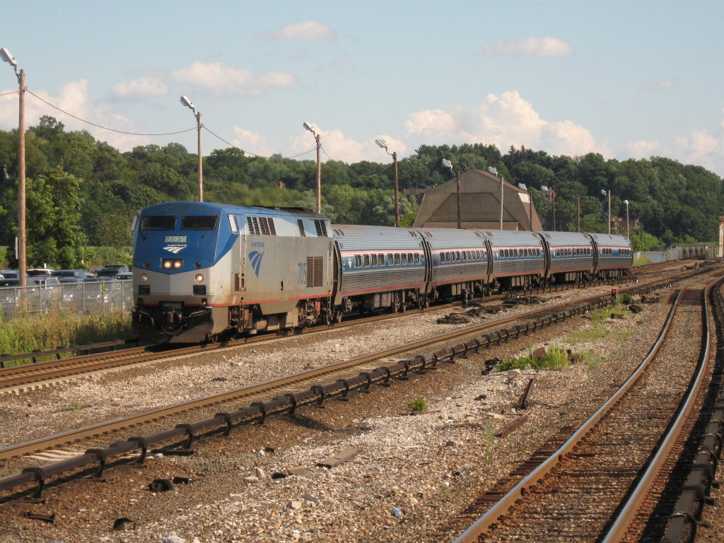 Ethan Allen Express train enters Croton Harmon en route to Rutland.